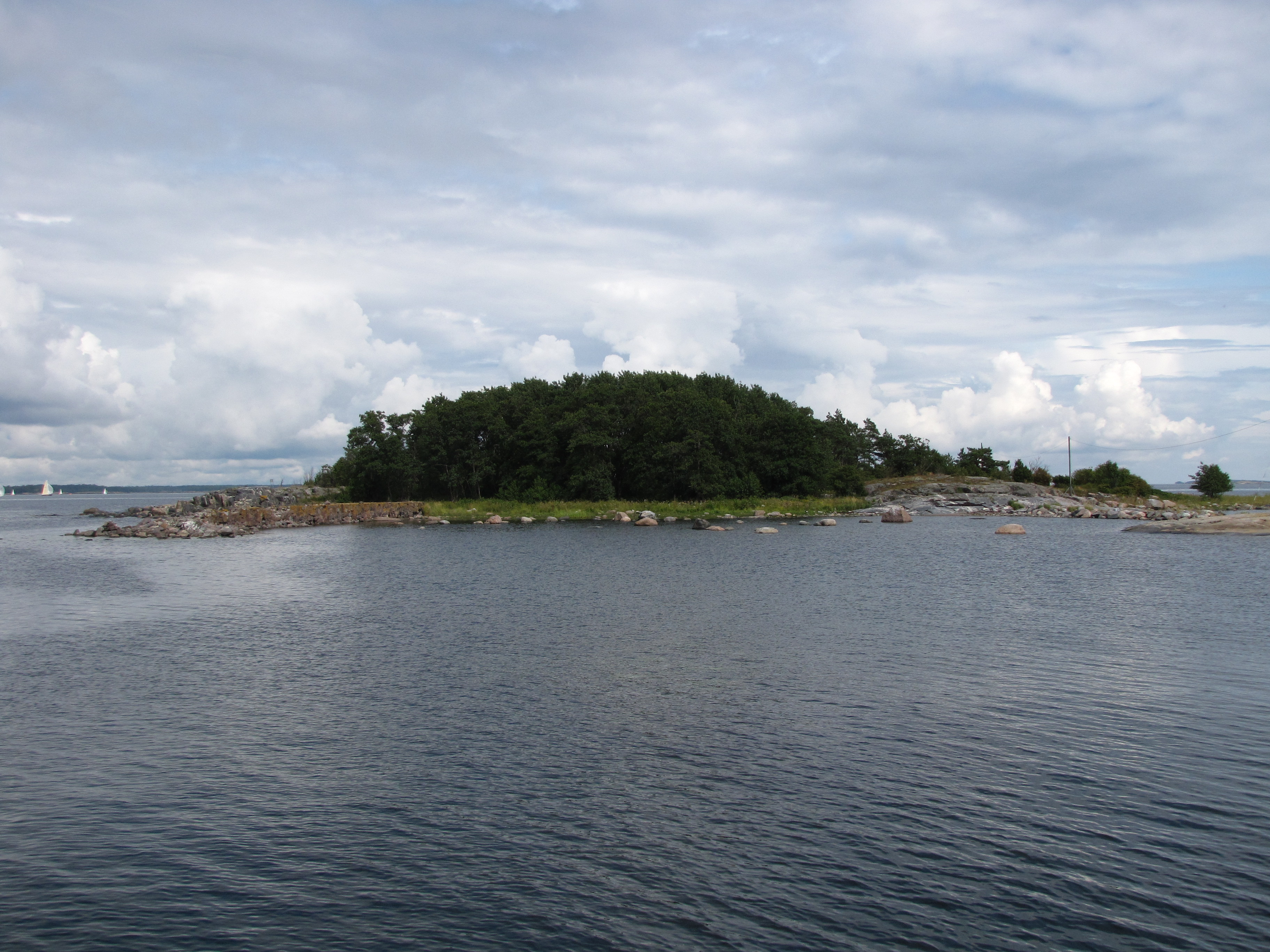 Pikku Kuivasaari island (Little Kuivasaari) from Kuivasaari.